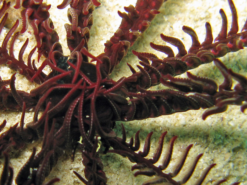 Upper side of Comatula purpurea at Lizard Island. Oral pinnules are covering the disc. The comb teeth cannot be seen in this photo.